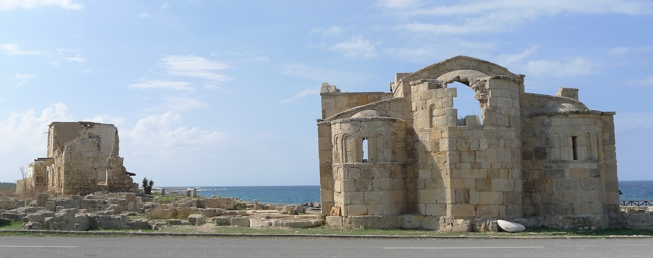 Ruins of Agios Filon at Karpasia, Cyprus.